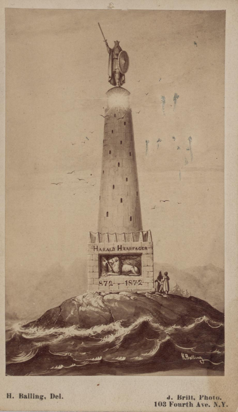 Artist: painting by H. Balling Date/place: 1872, New York Subject: - Norwegian National Monument, to be erected on the one thousanth anniversary of the nationality of Norway. Medium: prospect card, photgraph of painting Notes: Prospect card sold to the benefit of the monument (never erected). 1872, with original signature by Ole Bull on the back Persistent URL: [#// Original belongs to the Ole Bull Collection at Bergen Public Library]